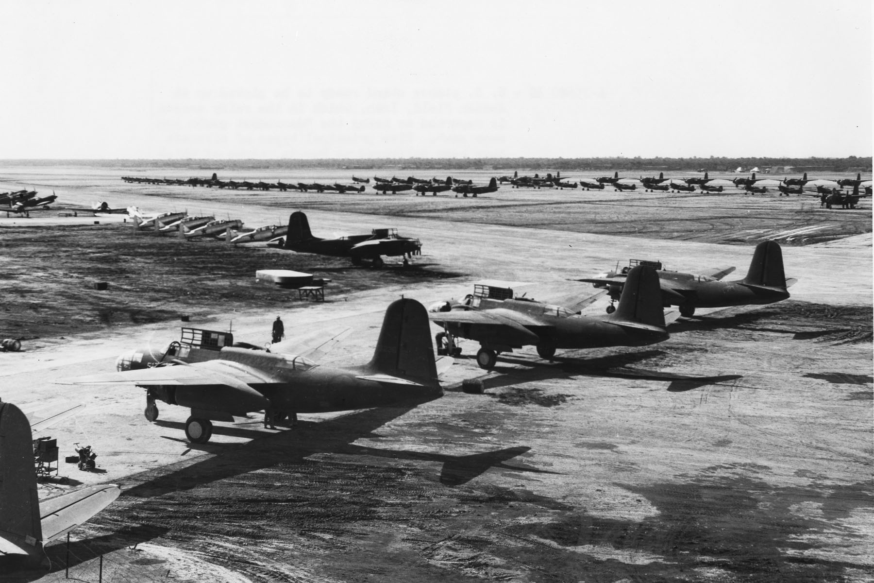 Lend-Lease Program U.S. planes stand ready to be picked up at Abadan Field, Iran, which in the rainy season was reported as being the “damnedest gumbo you ever saw.” Five principal types of aircraft were delivered to Russia, three of which are shown here. Of the total, about 20% were P-40s, 25% P-39s, 49% A-20s, 5% B-25s and 1% AT-6s. (U.S. Air Force photo)